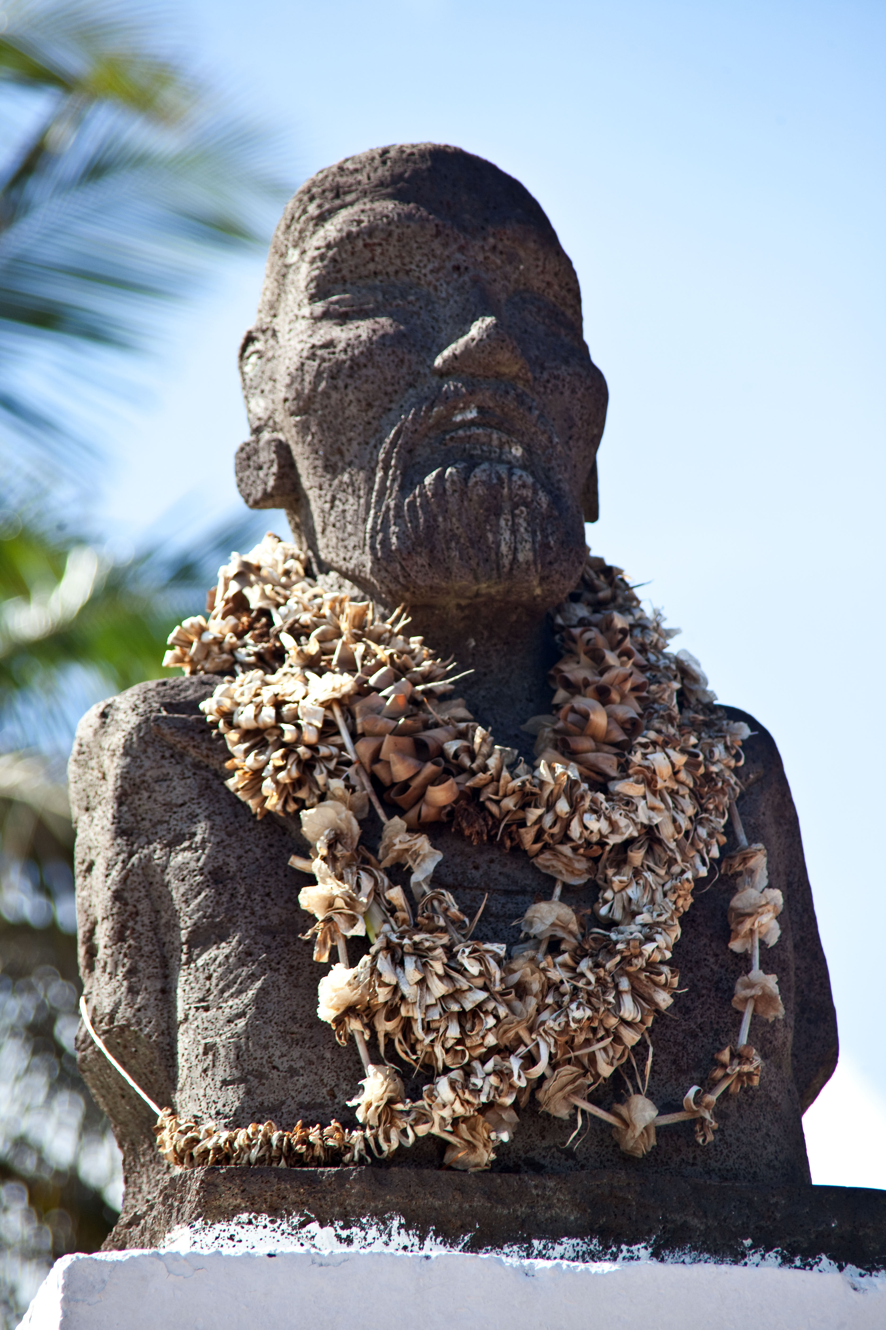 1080 Statue of the King of Rapa Nui in a park in Hanga Roa - Rapa Nui Chile 10-18-2013